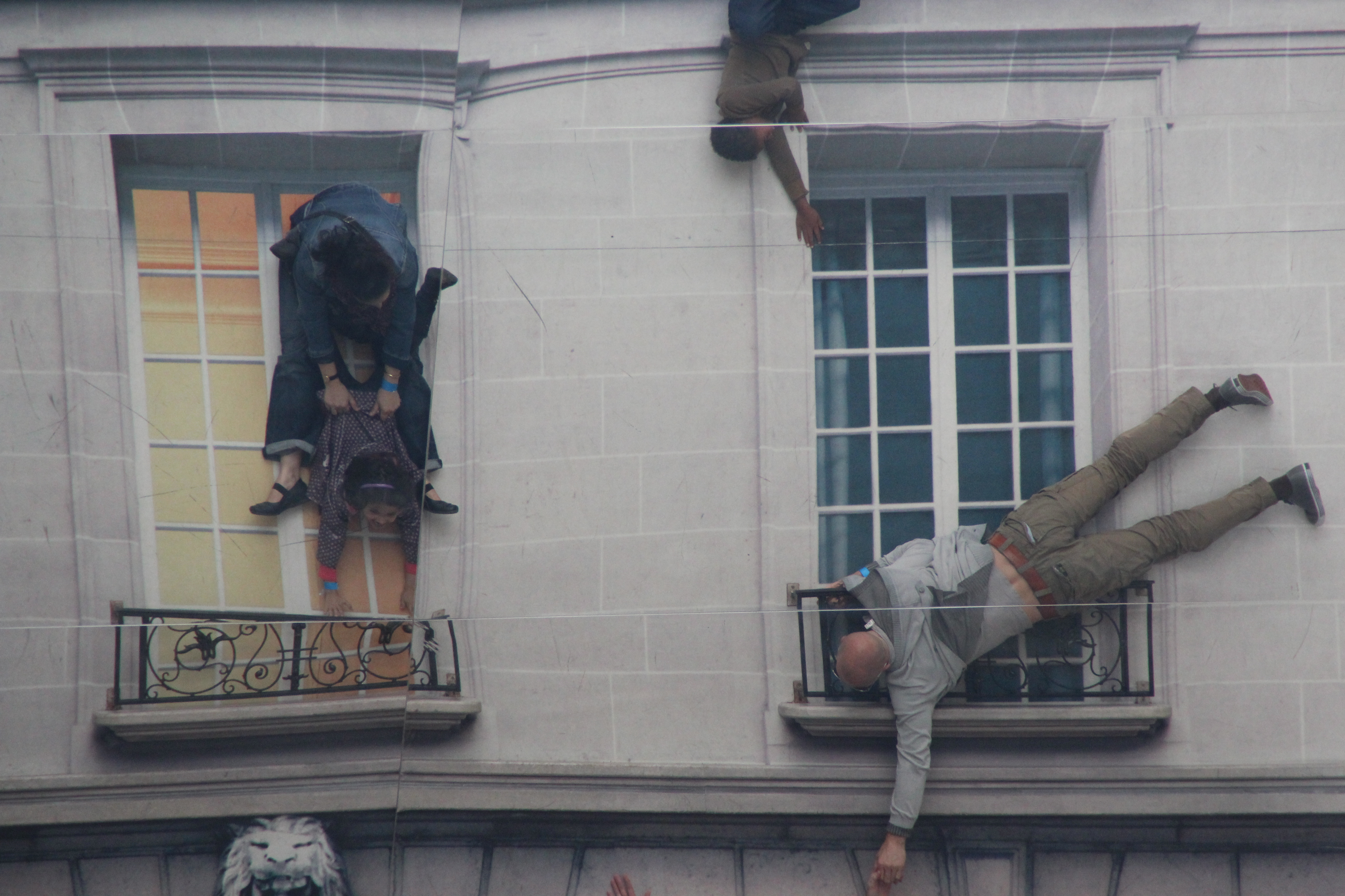 Futur en Seine 2012 is a digital festival in Paris, France. Demonstration of a special effect: people are lying on the ground that mimics a facade of a building in Paris, a mirror held over them gives the impression that they are climbing a real facade. - Google Maps - Google Earth